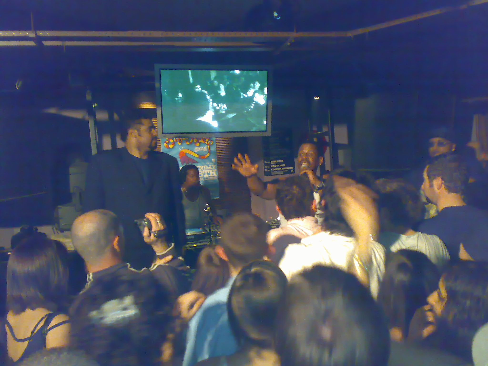 The Sugarhill Gang performing in 2007